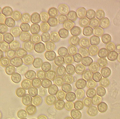 Conidia of Trichoderma aggressivum europaeum. Public Domain, US Department of Agriculture, Agricultural Research Service, Systematic Botany and Mycology Laboratory.